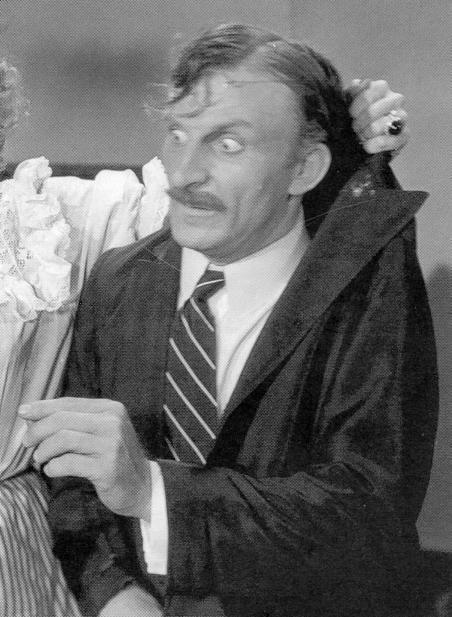 Picture of the actor Emil Sitka from "Brideless Groom" (1947), in public domain